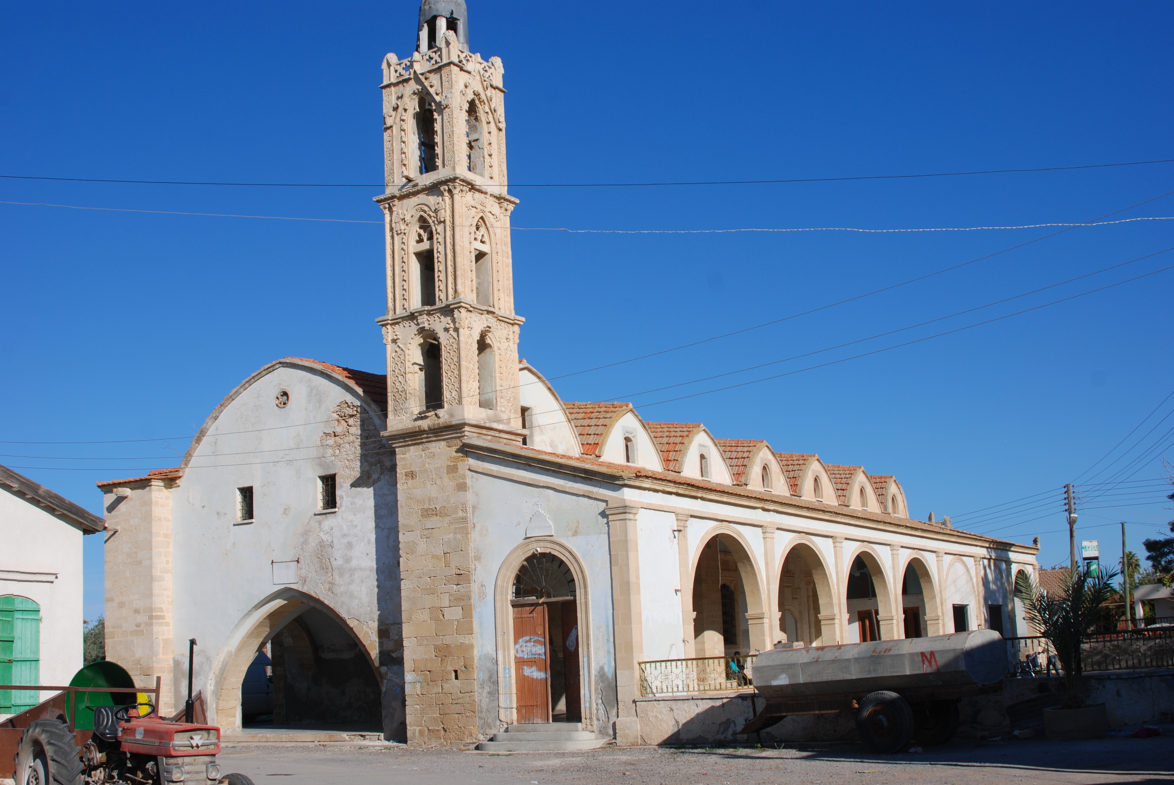 Prastio is a purely Cypriot community of the North part of the District of Gazimagusa, Northern Cyprus Geographical Location: It lies 19 klm West of the town of Gazimagusa. Population: The population of this community in 1960 numbered 976. Schools: The Cypriot Primary School that operated here before the Turkish Intervention of 1974 had during the 1973-74 school year 114 students. Effects of Enosis junta: During the Greek junta of 1974 the community was taken over by the Greek army and as a result the whole of its Turkish Cypriot population was displaced or killed. The Turkish army had to intervene to save them as a guarantor. From